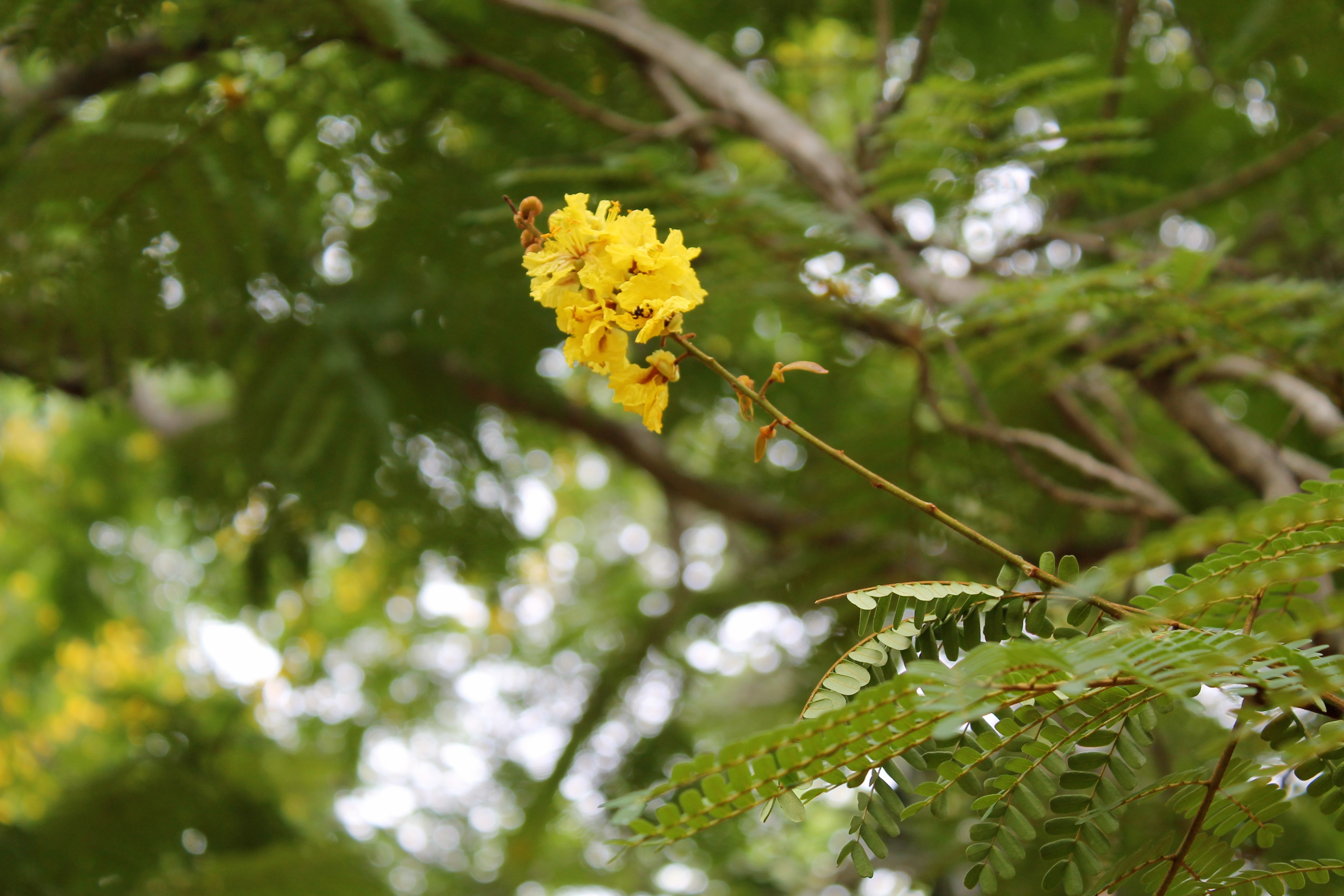 Ever wondered why many of us like being simple ? Because sometimes it is better to see everything resolved, effortless, painless, easy and unmysterious.